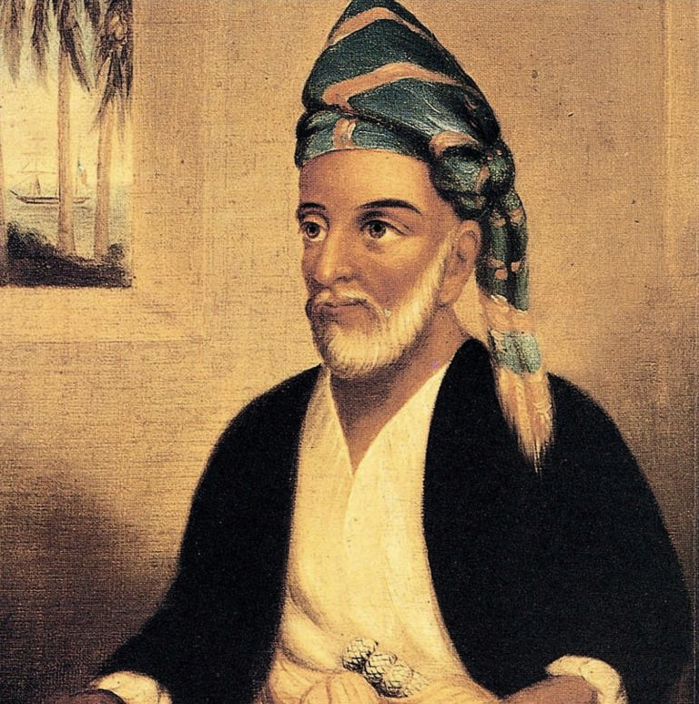 Contemporary portrait of Said bin Sultan